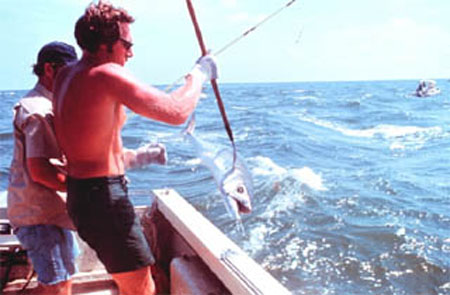 A large king mackerel coming aboard a sportfishing boat in the Gulf of Mexico.